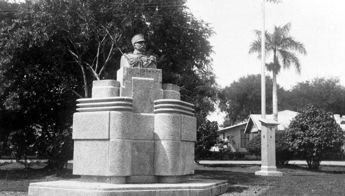 The monument for Colonel J. B. van Heutsz in Koetaradja